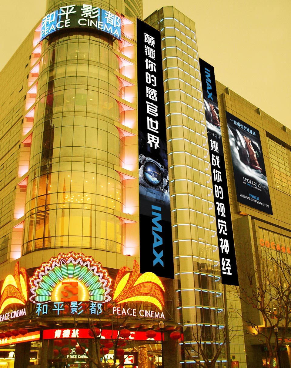 The IMAX Peace Cinema in Shanghai, China.